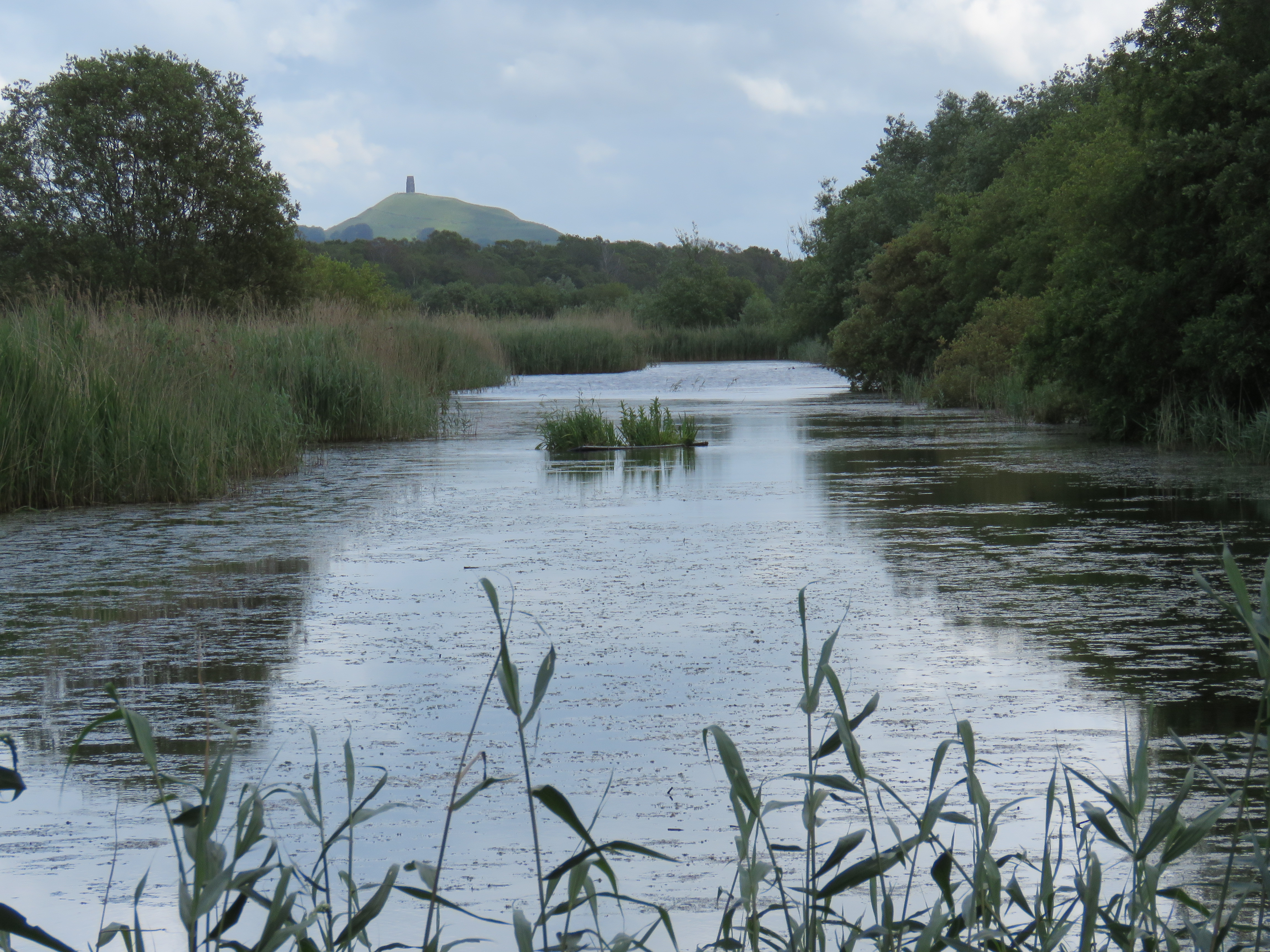 rspb ham wall and glastonbury tor